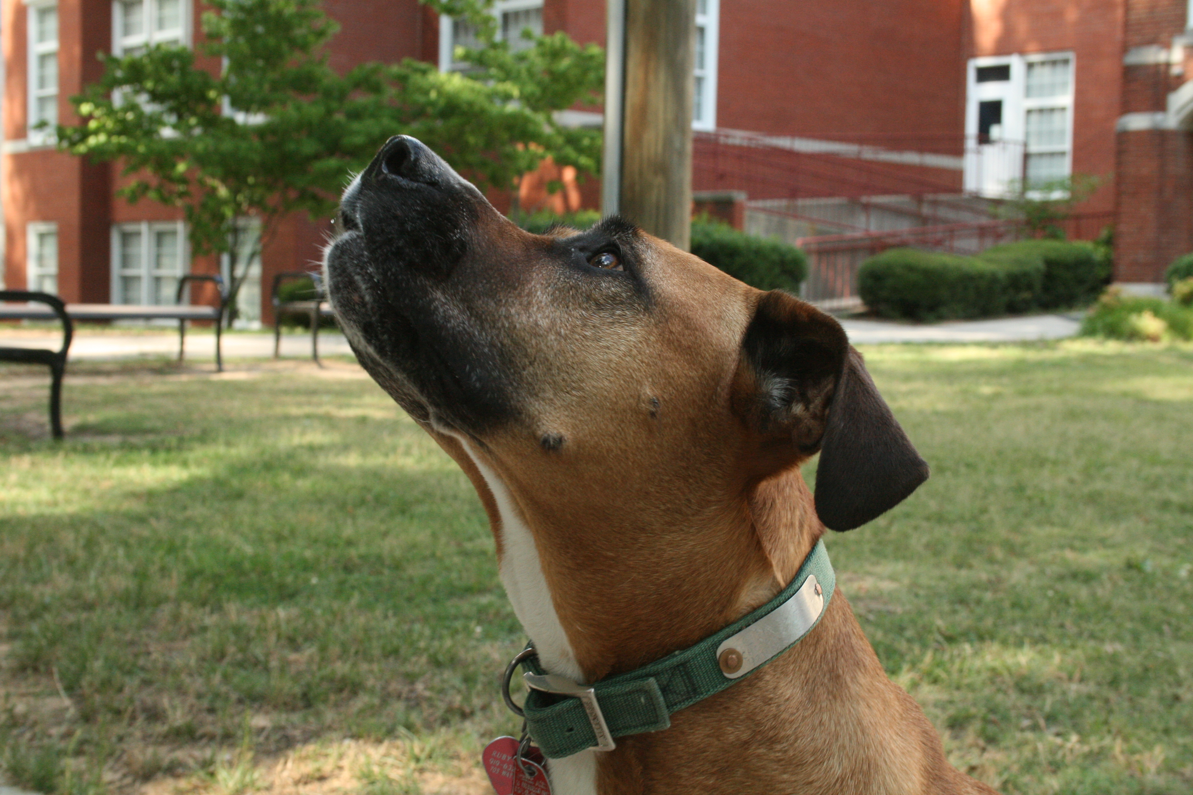 A dog named Ruby begging for a treat in front of the George Watts Montessori Magnet School in Durham, North Carolina.